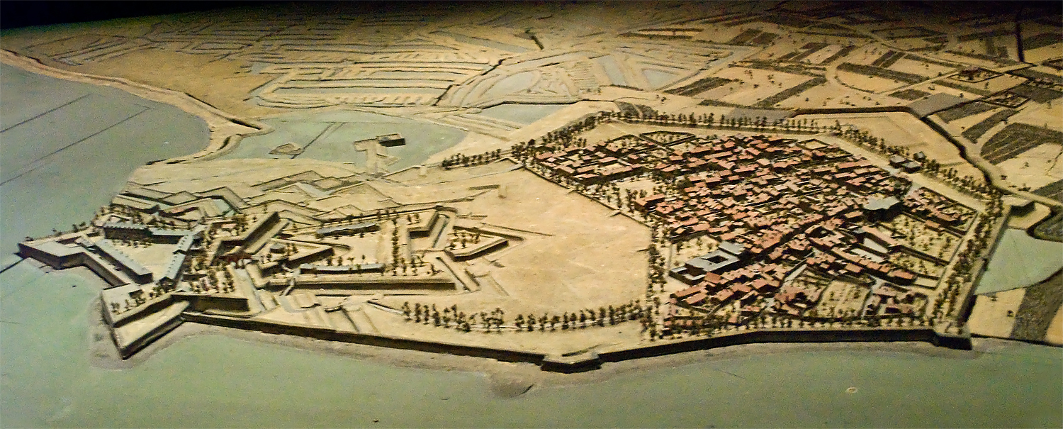 Le Château-d'Oléron (Charente-Maritime, France) : scale model of the fortifications and of the citadel designed by Vauban (1703, Musée des plans-reliefs, hôtel des Invalides, Paris)